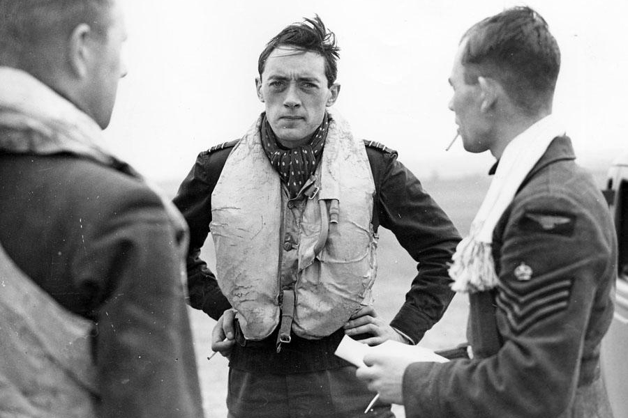 Brian Lane is pictured above, in the middle, immediately after a Battle of Britain sortie in September 1940. The strain and exhaustion on his face belie his young age and make this one of the best known and most powerful images to come out of the Battle of Britain.